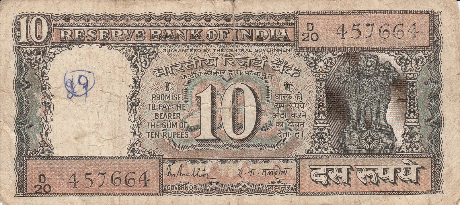 10 Indian rupee obverse